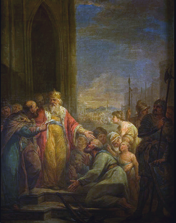 Casimir the Great by Marcello Bacciarelli 1796